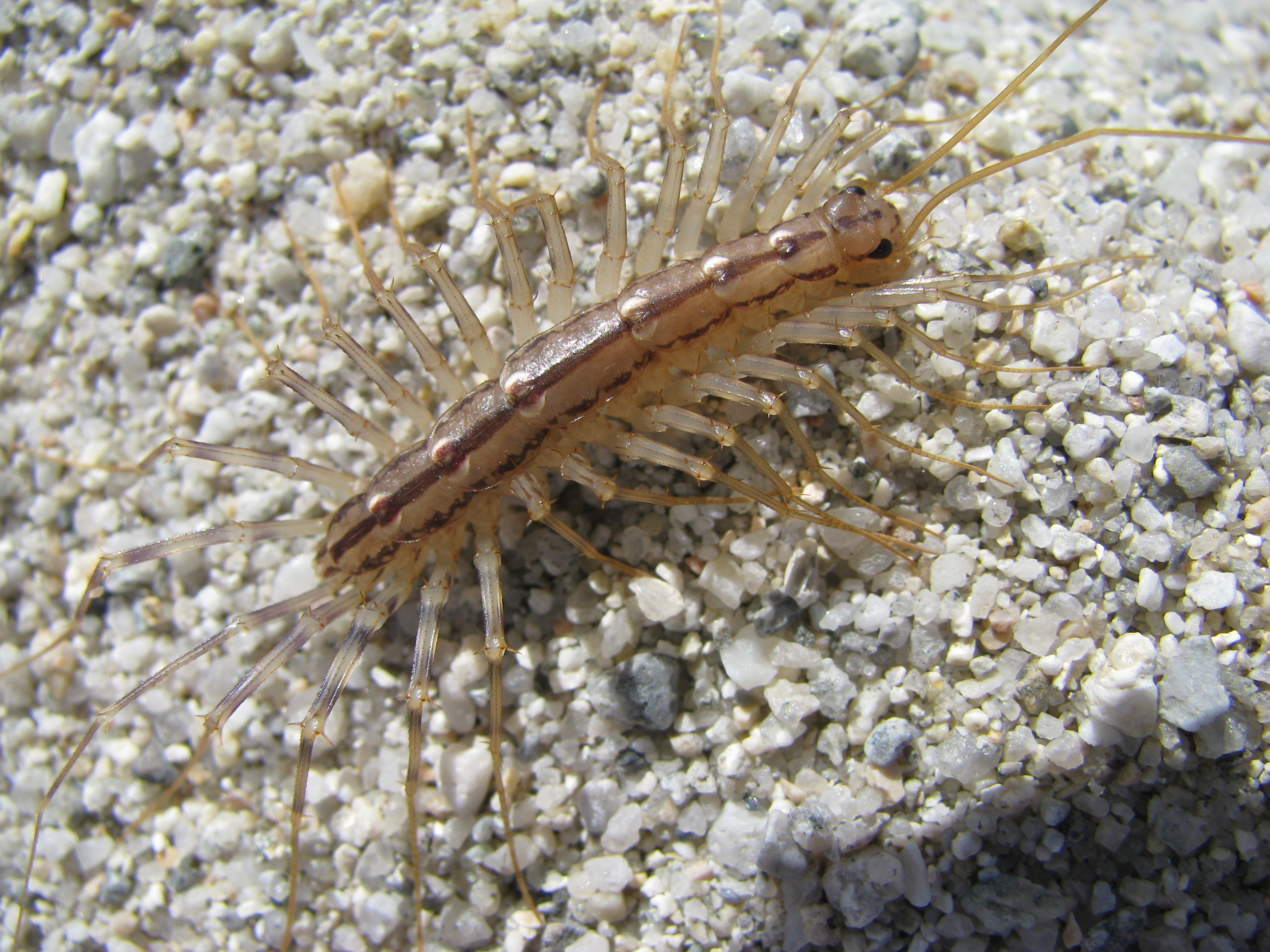 Scutigera coleoptrata from a Sardinian beach